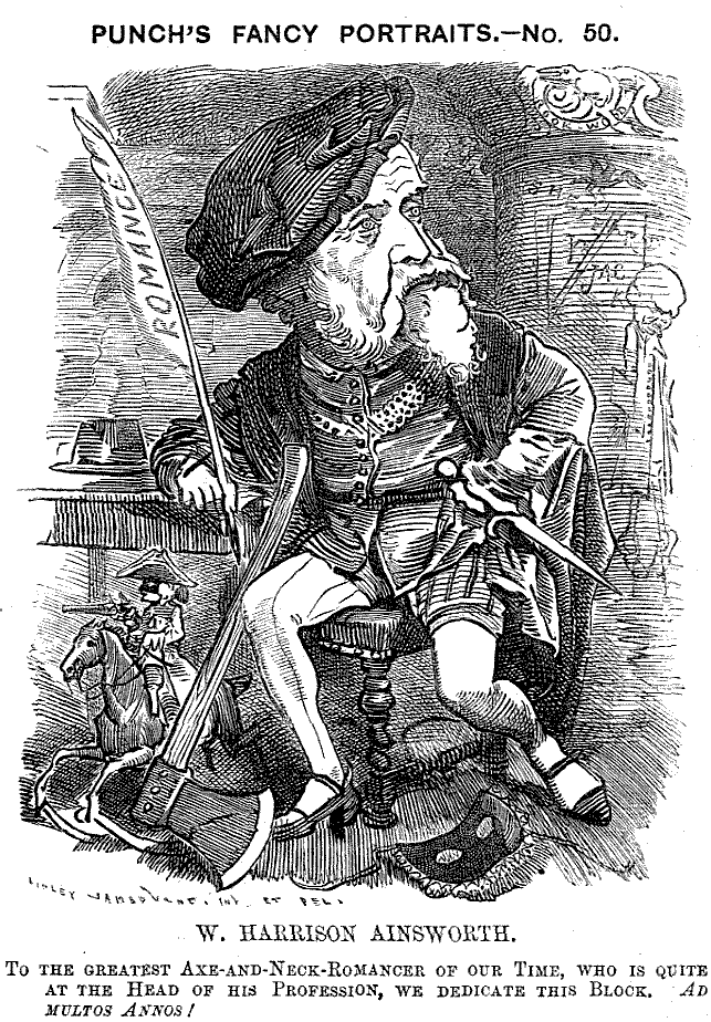 Caricature of William Harrison Ainsworth (1805 - 1882)